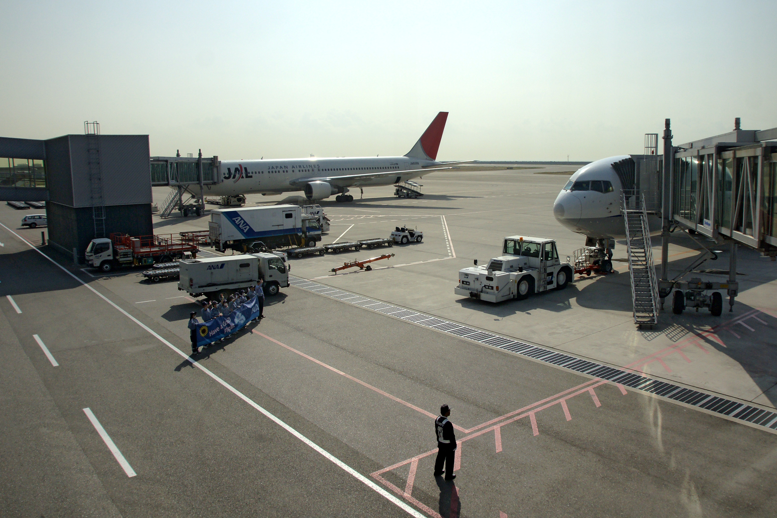 Kobe Airport in Kobe, Hyogo prefecture, Japan